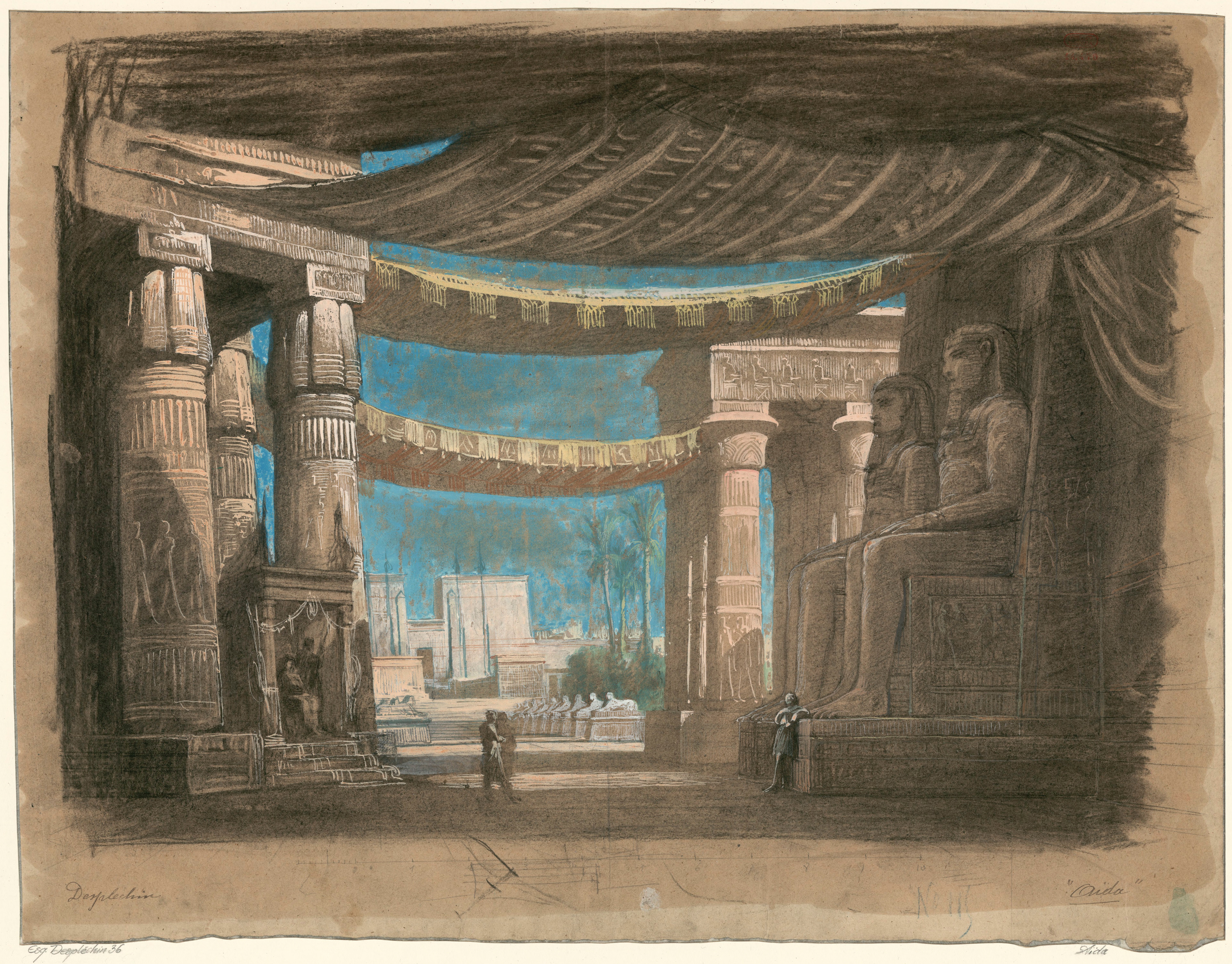 Set design for Act 2 tableau 2 ("Entrance to Thebes") of Verdi's opera Aida as first performed at the Cairo Opera House on 24 December 1871